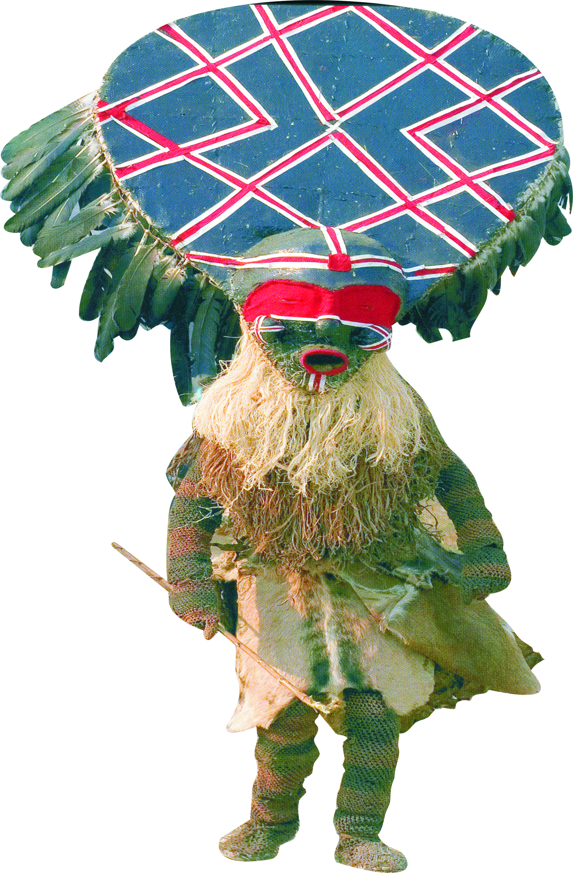 Mbunda Mukanda Likithi artifact, used to entertain the communities during the Mbunda Mukanda circumcision camp period.